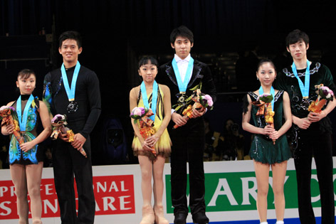 The pairs podium at the 2009-2010 Junior Grand Prix of Figure Skating Final. From left: Narumi Takahashi / Mervin Tran (2nd), Sui Wenjing / Han Cong (1st), Zhang Yue / Wang Lei (3rd).